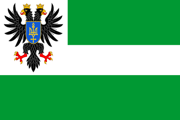 Flag of Chernihiv Oblast, Ukraine